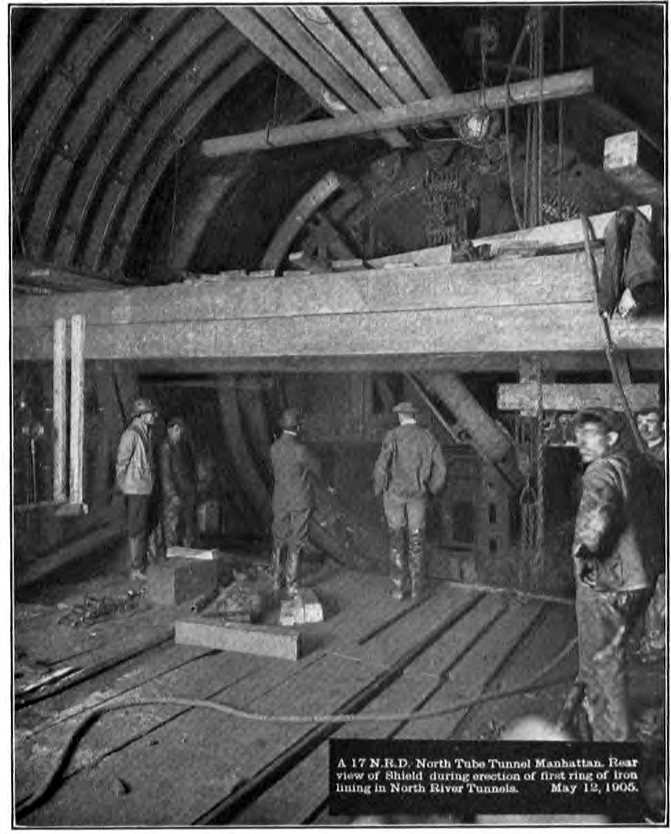 Rear view of the hydraulic tunnel shield installed during construction in the north tube of the North River Tunnels under the Hudson River. The construction crew is installing the first iron ring for the lining of the tunnel. The North River Tunnel project was part of the larger New York Tunnel Extension project of the Pennsylvania Railroad.